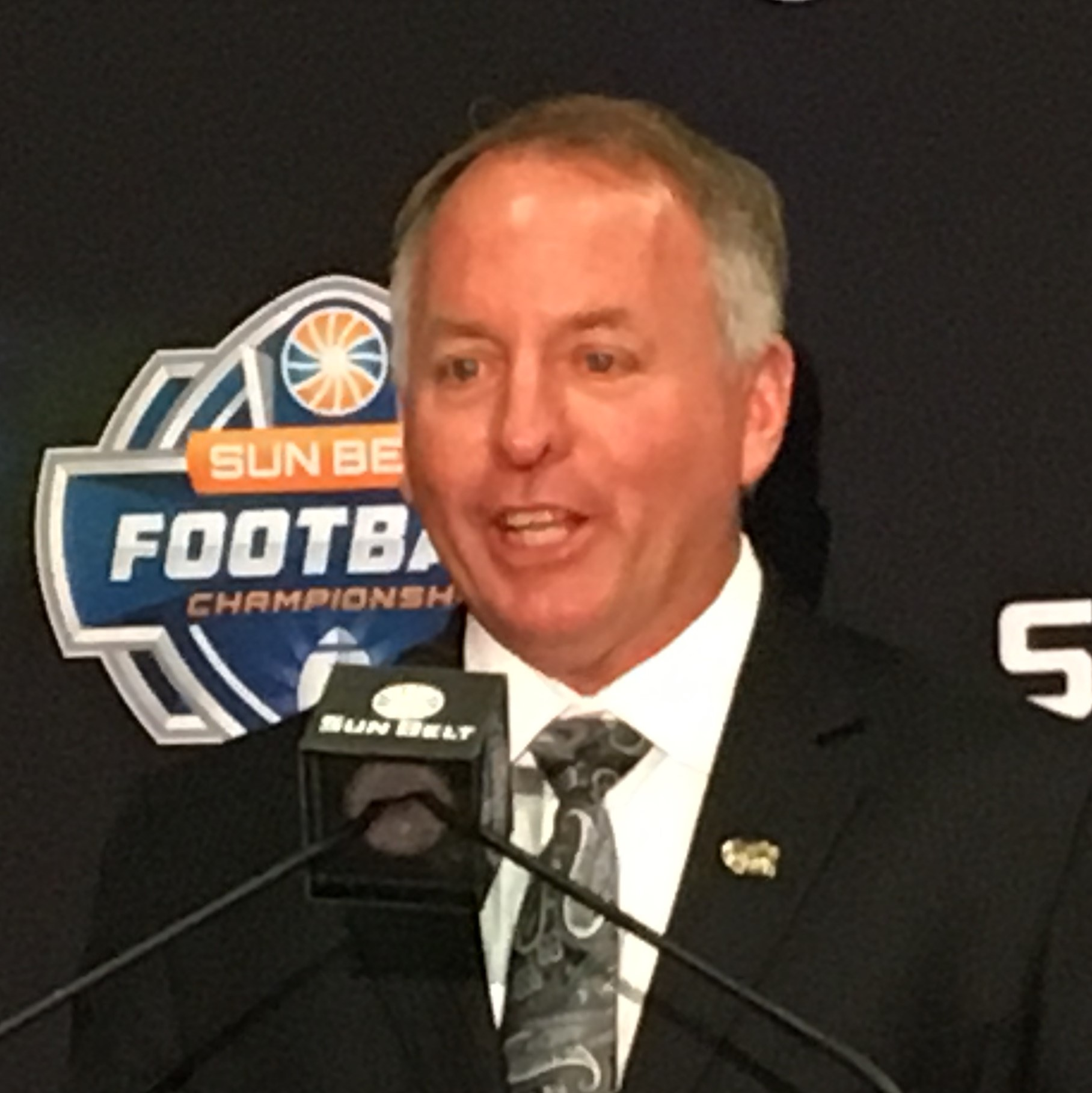 Matt Viator, head coach of the ULM Warhawks football team, at the 2018 Sun Belt Conference Media Day in the Mercedes-Benz Superdome in New Orleans.